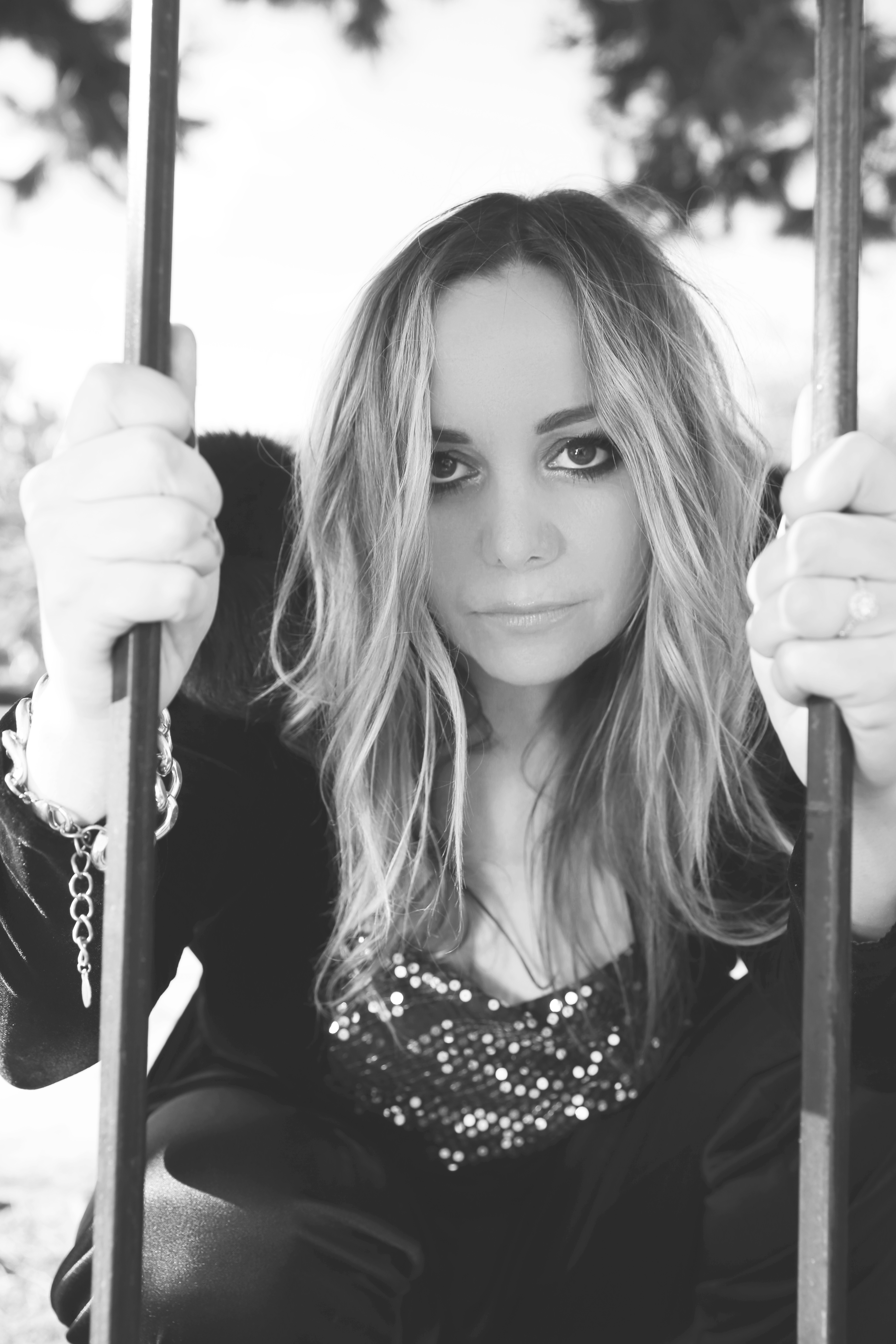 TamraBars